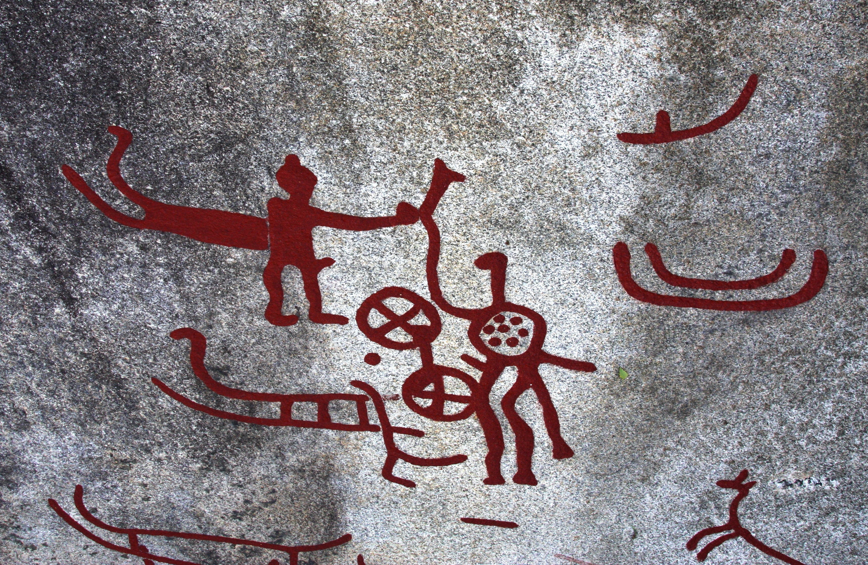 Hällristning i fält 12 på aspberget, lite söder från Vitlycke i Tanums kommun, Bohuslän